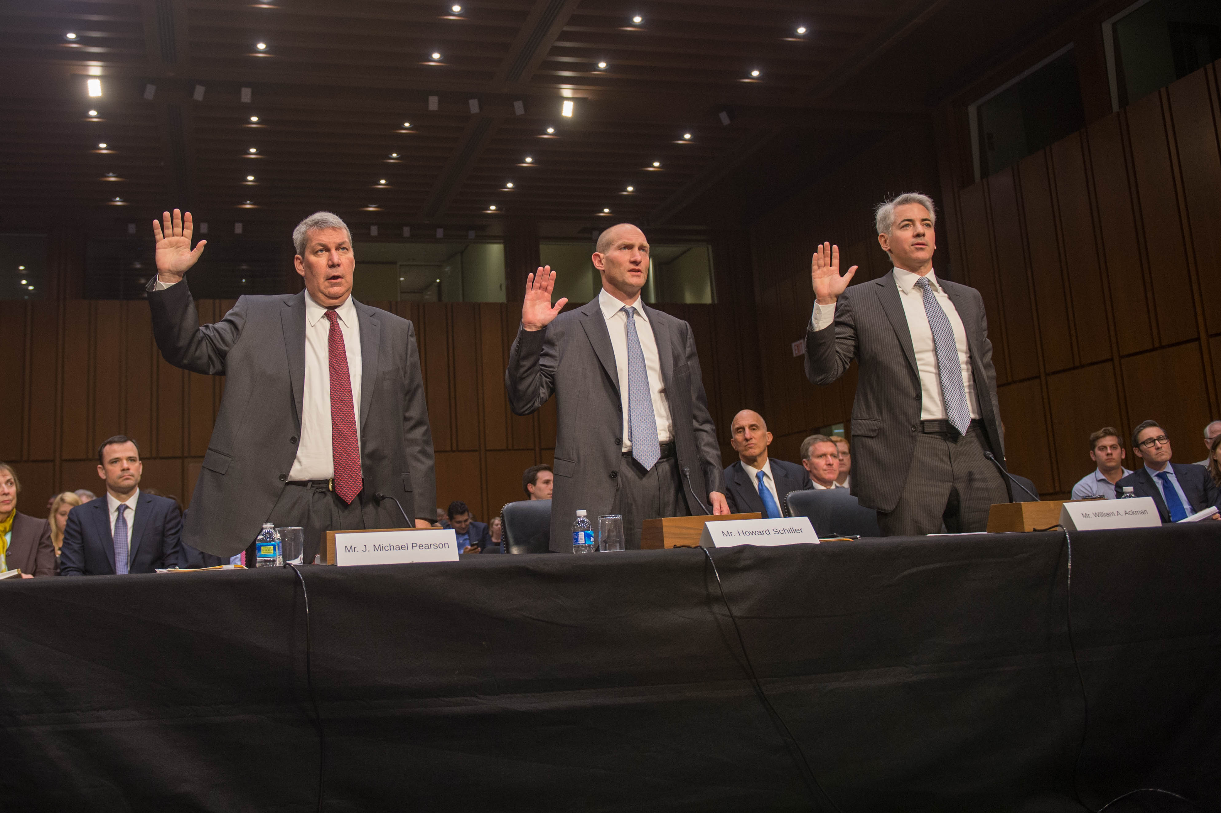 Valeant Pharmaceuticals' Business Model: the Repercussions for Patients and the Health Care System